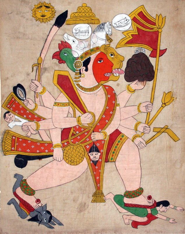 Panchmukhi Hanuman